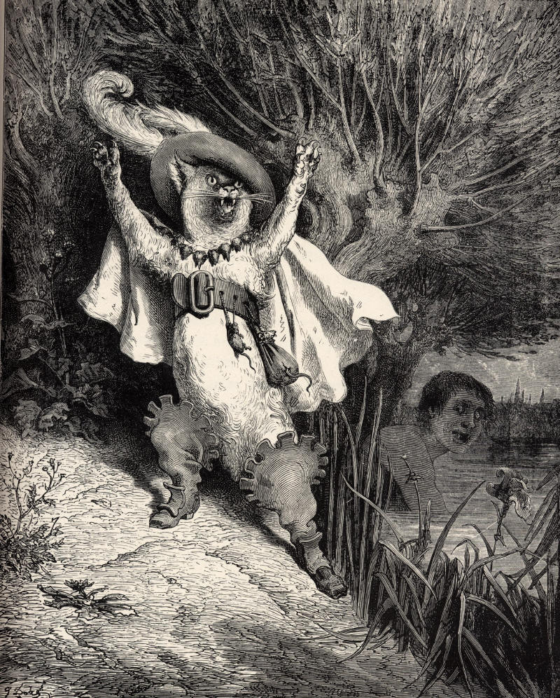 "Puss in boots" (Le chat botté). Illustration by Gustave Doré of Charles Perrault's tale, wood engraving by Pannemaker.